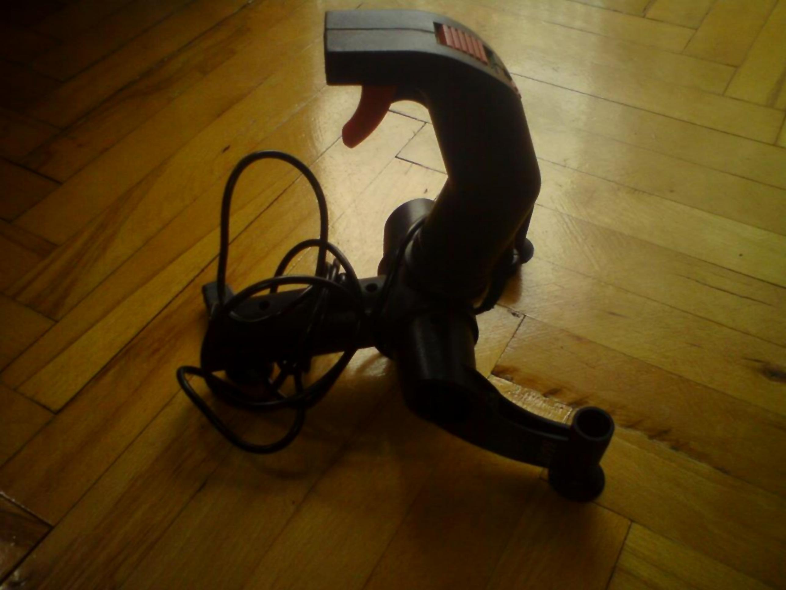 Joystick PC SKORPION 2xfire version lux, manufactured by MATT.